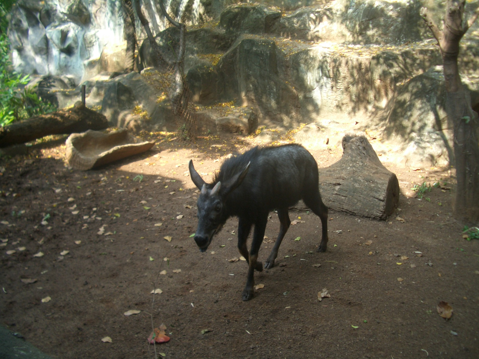 Serow, Capricornis sumatraensis